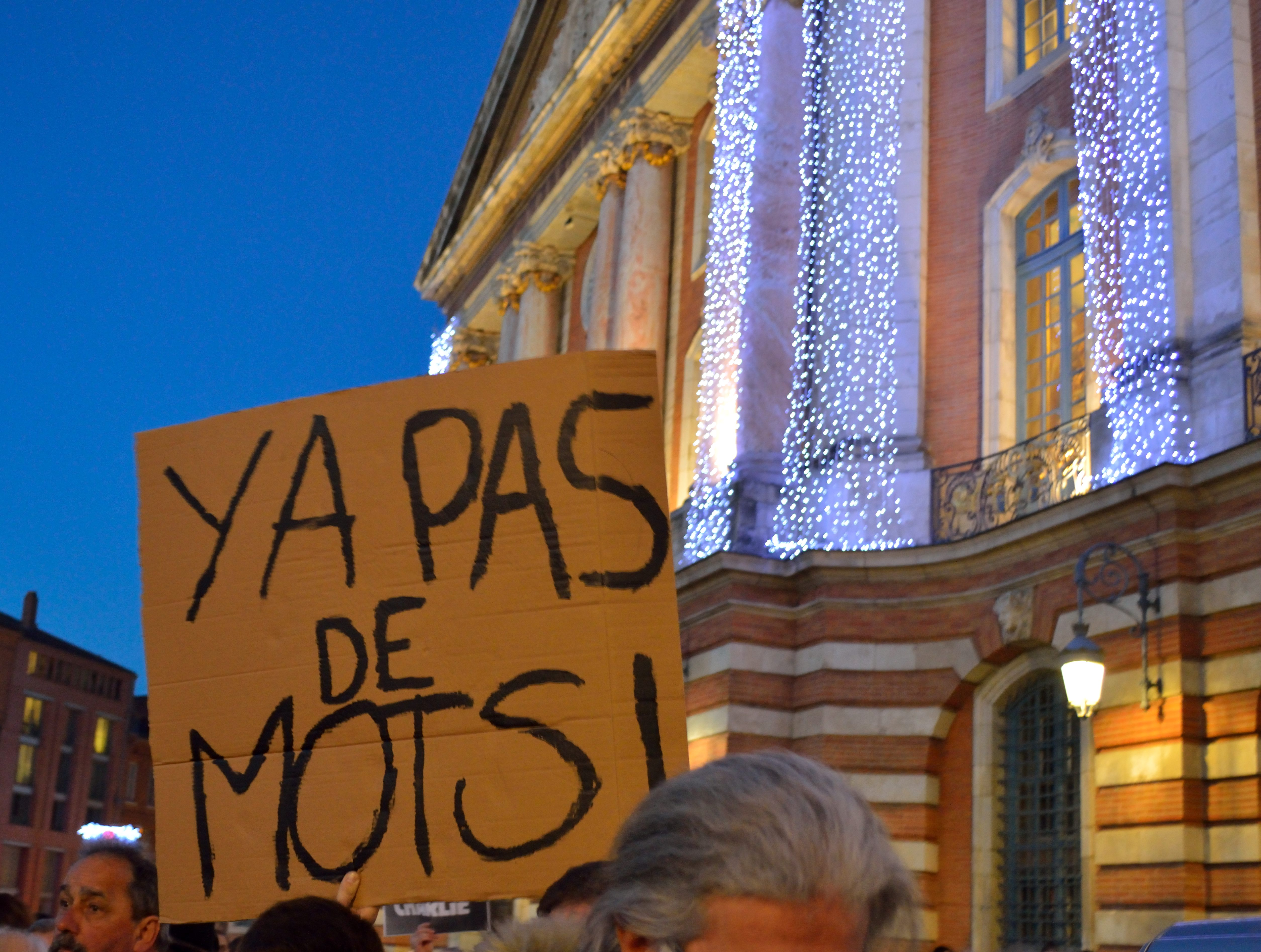 Sing in front of the Capitole at the rally in support of the victims of the 2015 Charlie Hebdo shooting. ("There is no words!")